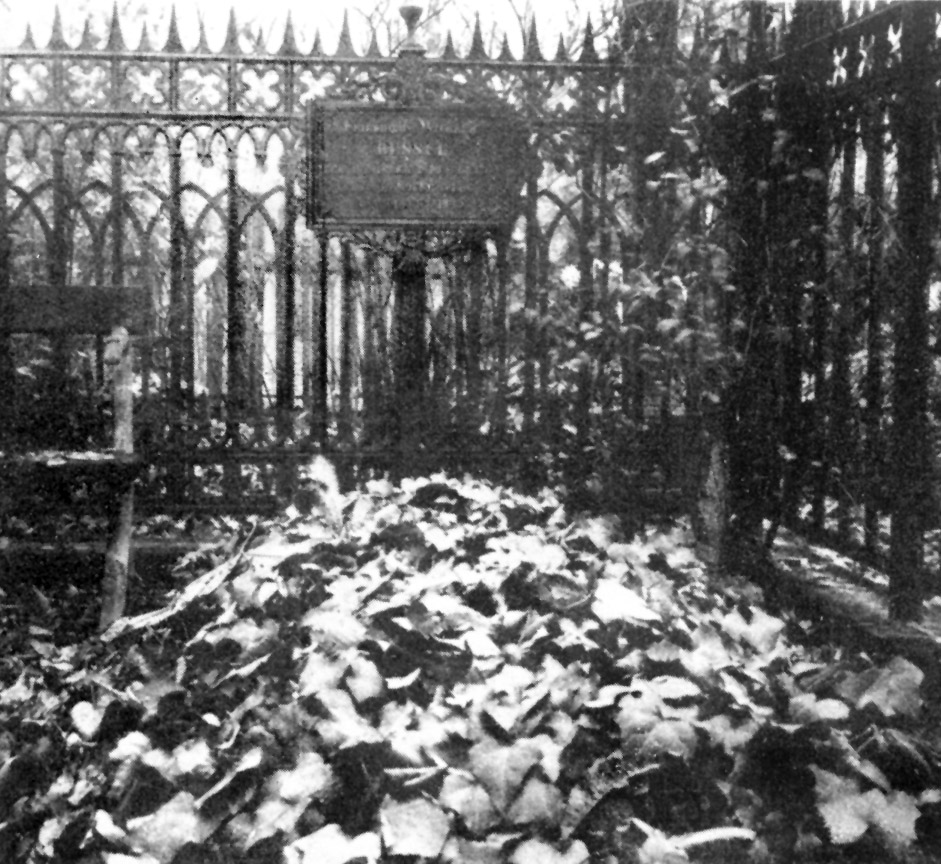 The grave was situated in Königsberg, todays Kaliningrad, see "Gelehrtenfriedhof-Königsberg". F.W. Bessel was mathmatics and astronomer